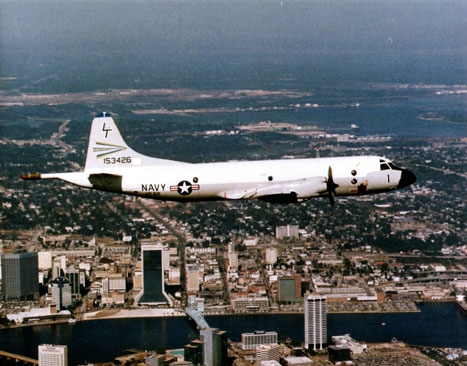 A U.S. Naval Air Reserve Lockheed P-3B-80-LO Orion (BuNo 153426) of Patrol Squadron VP-62 flies over downtown Jacksonville, Florida (USA). VP-62 operated the P-3B from 1979 to 1987.